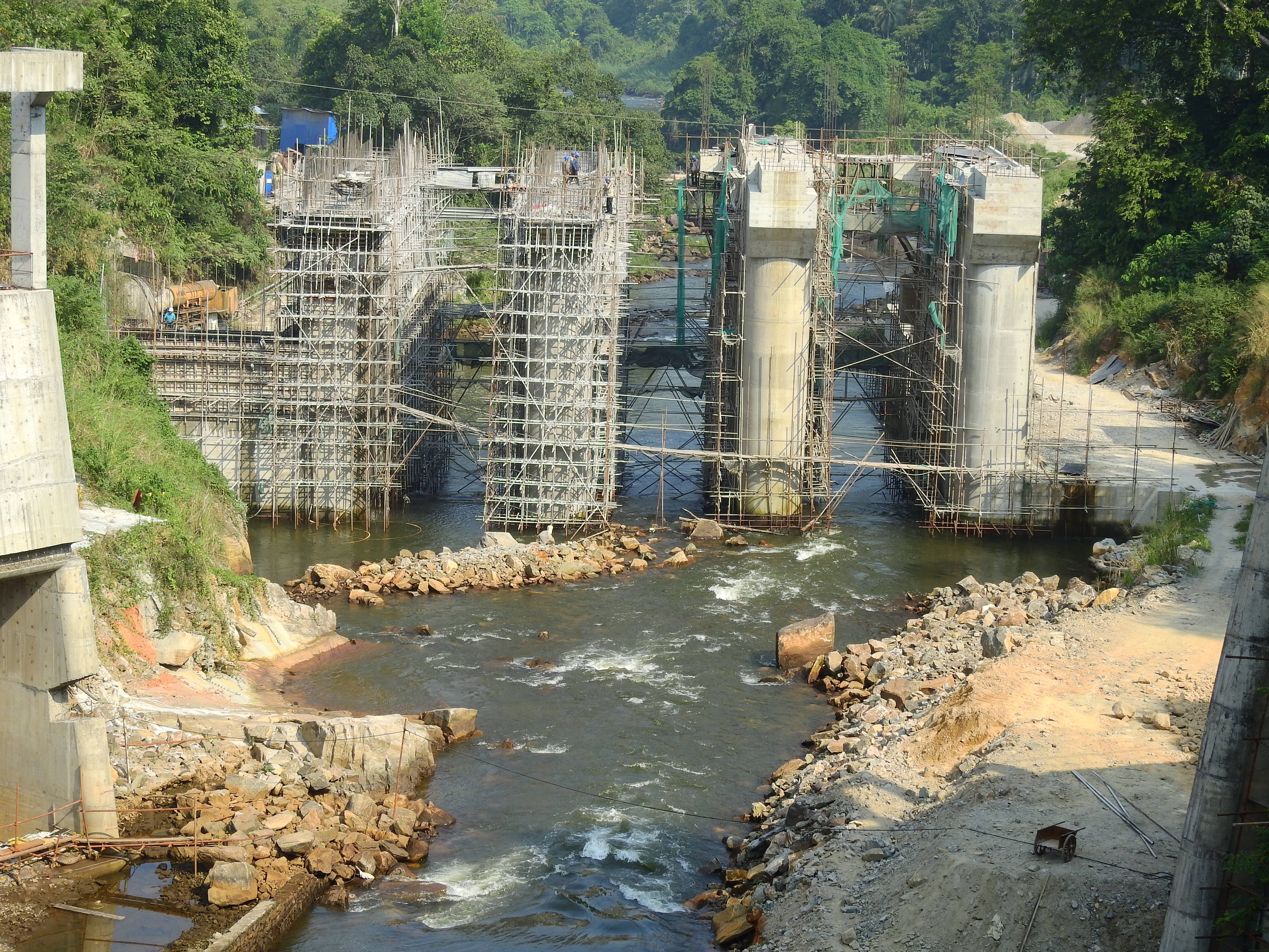 This photo was taken as part of a photo project by Wikimedia Community User Group Sri Lanka, covering current/future hydroelectric dams (and its surroundings) in the Central and Sabaragamuwa provinces of Sri Lanka. User:Rehman handled the photography, while User:Azeez and User:PasinduBR handled the logistics/planning of routes. Description of photo: Broadlands Dam under construction. Further information on the subject(s) of the photograph may be found in the category/ies of this file.